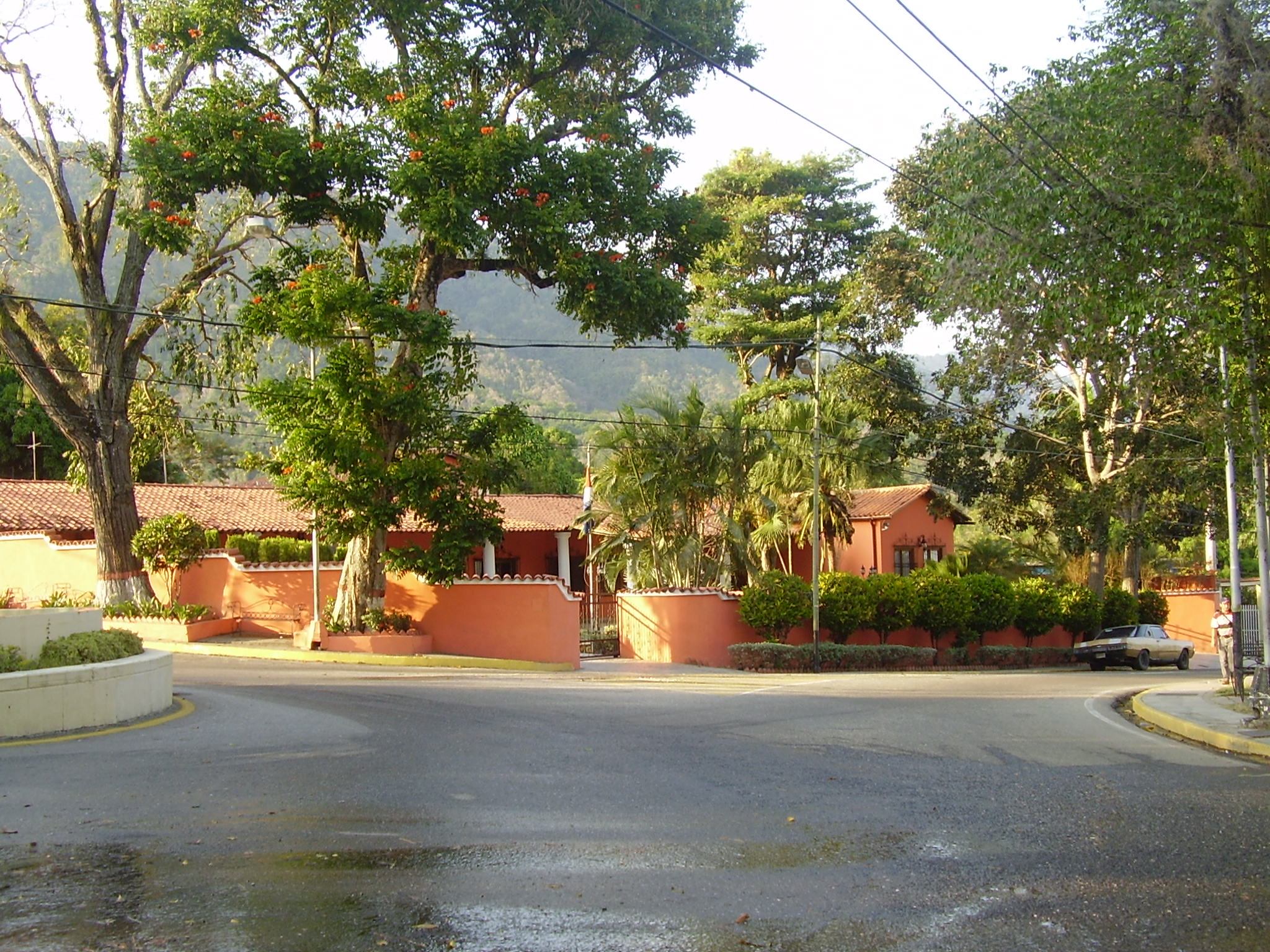 Official Residence Governors of Yaracuy